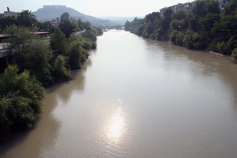 Göksu River (Silifke, Mersin)